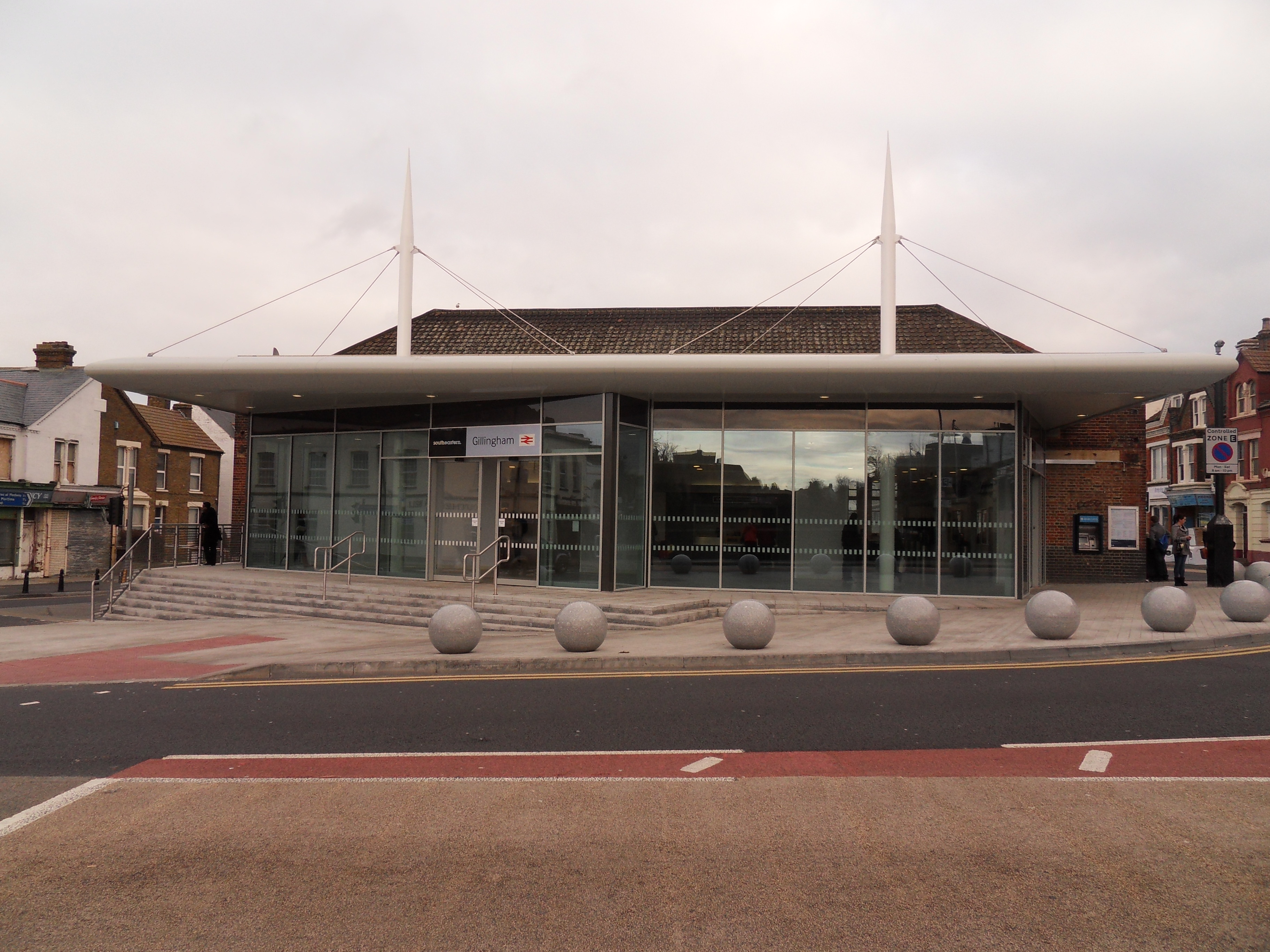 The recently opened new look front of Gillingham (Kent) station.